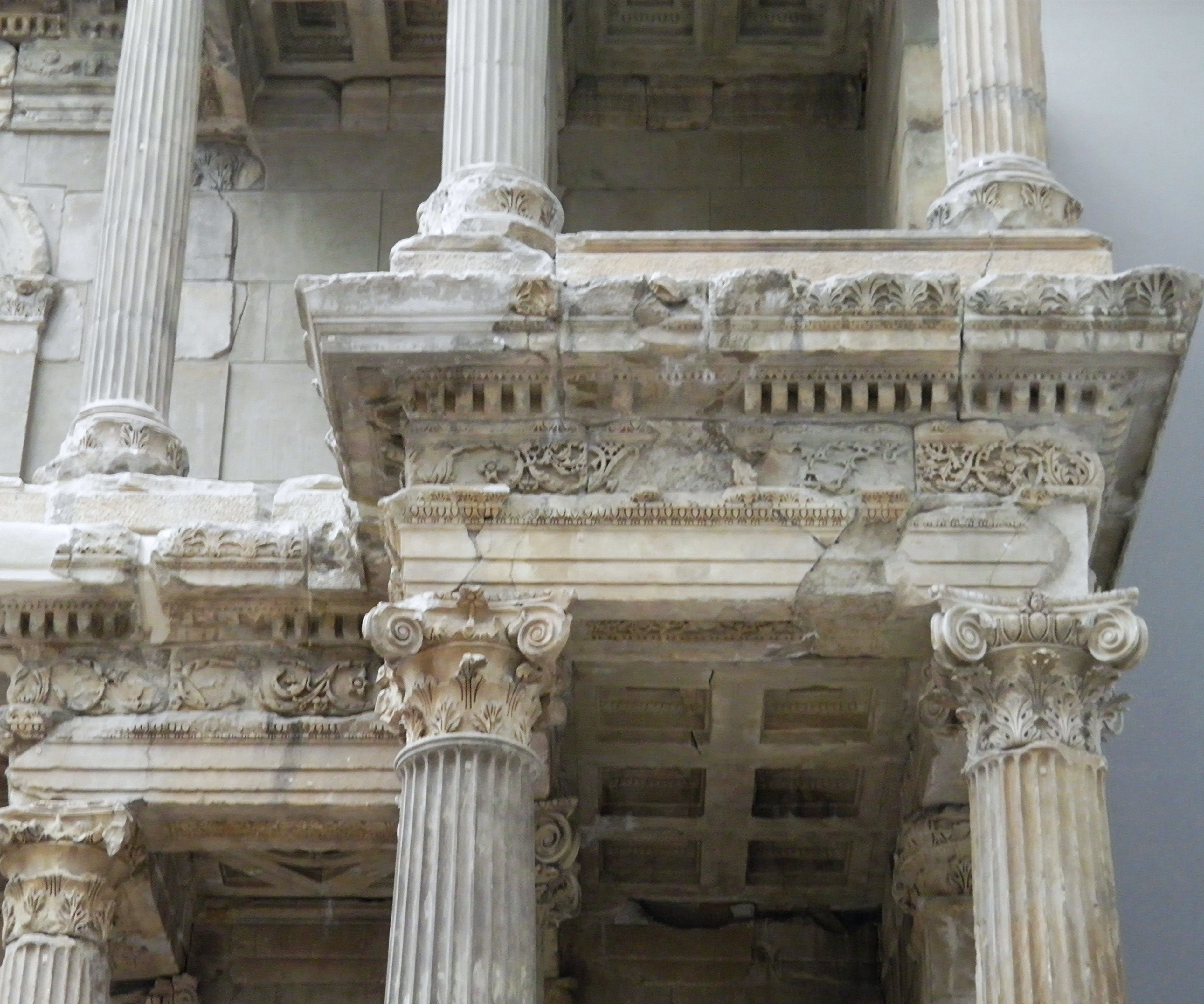 Detail of the Market Gate of Miletus, Pergamon Museum Berlin